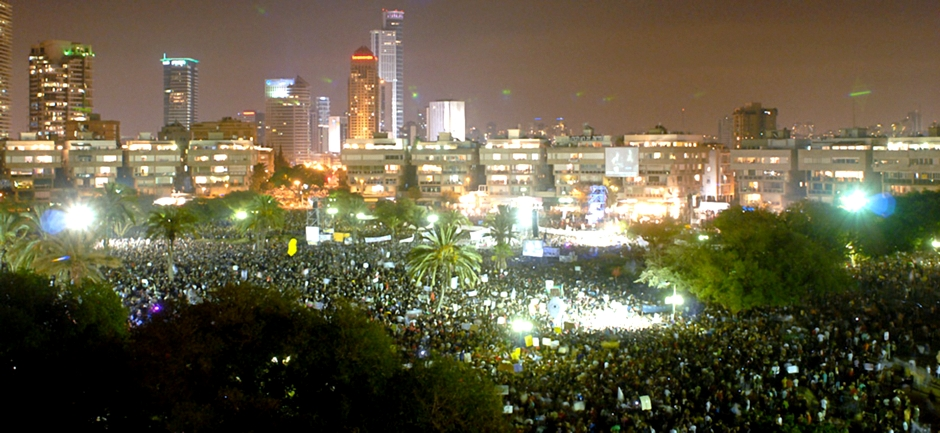 Over 450,000 protesters attended rallies across the country last night calling for social justice in what was the largest demonstration in Israeli history. The main protest took place in Tel Aviv's Kikar Hamedina, where some 300,000 people gathered after marching from Habima Square about two kilometers away. Protest leader Yonatan Levy said the atmosphere was like "a second Independence Day". from